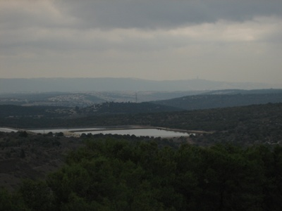 A view from Sephoris towards Mount Carmel, Galilee (Israel). / Pogled iz Seforisa prema brdu Karmel, Galileja (Izrael).